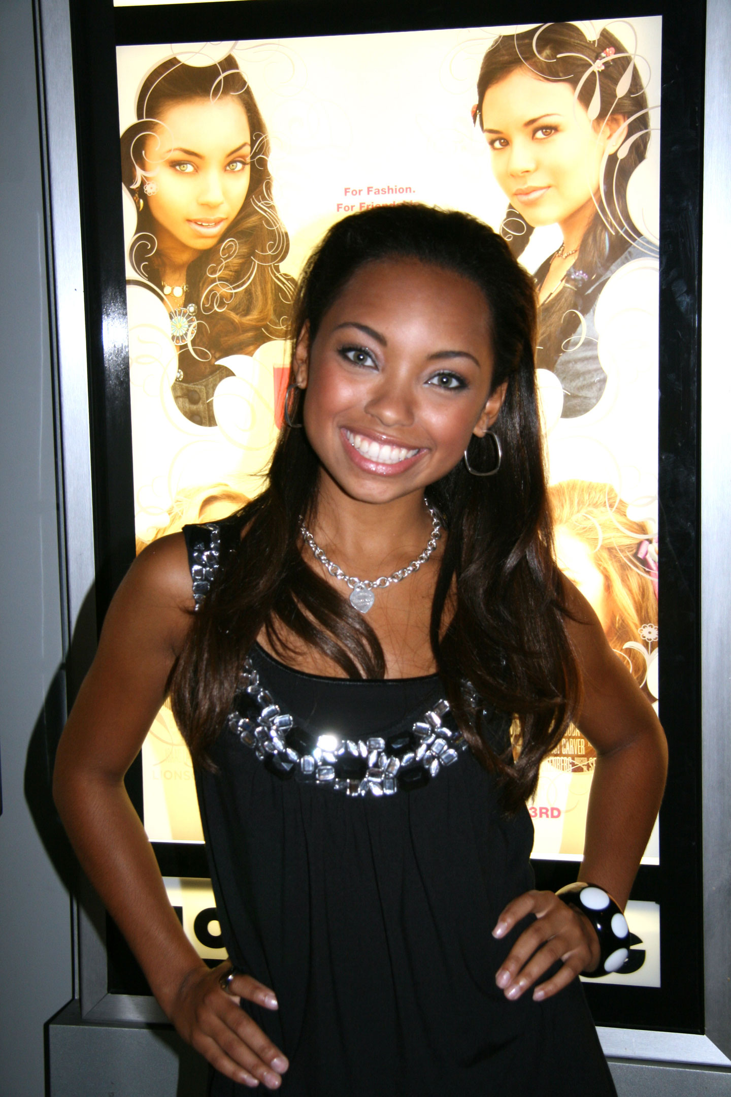 Cast of Bratz at the Canadian premiere, in Toronto.